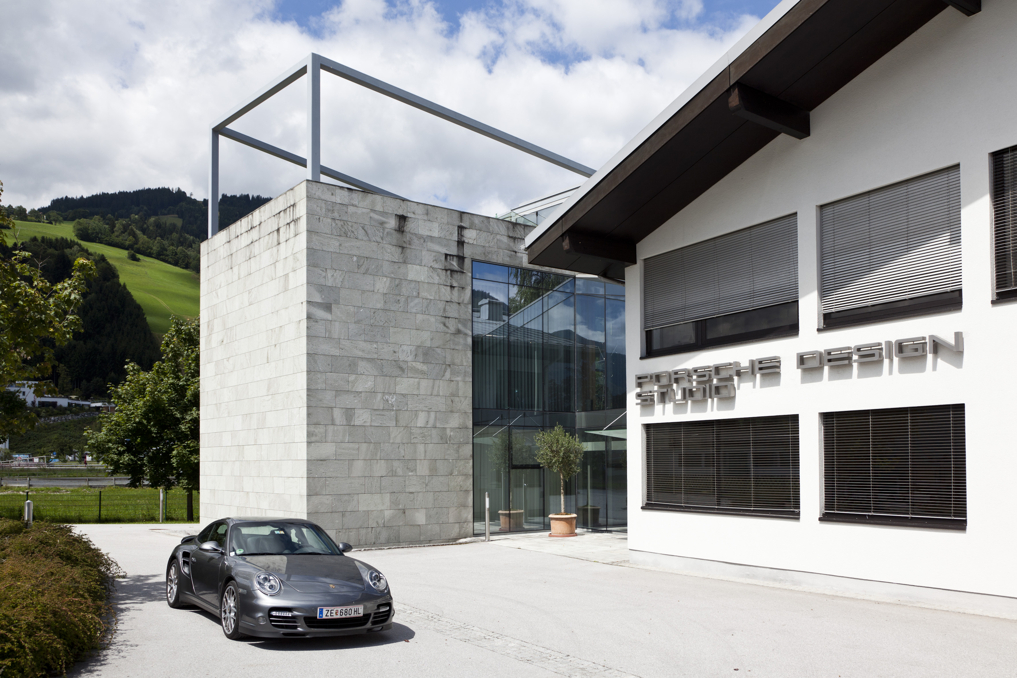 Porsche Design Studio in Zell am See 10.08.2011 © 2011 Sven Doering / Agentur Focus